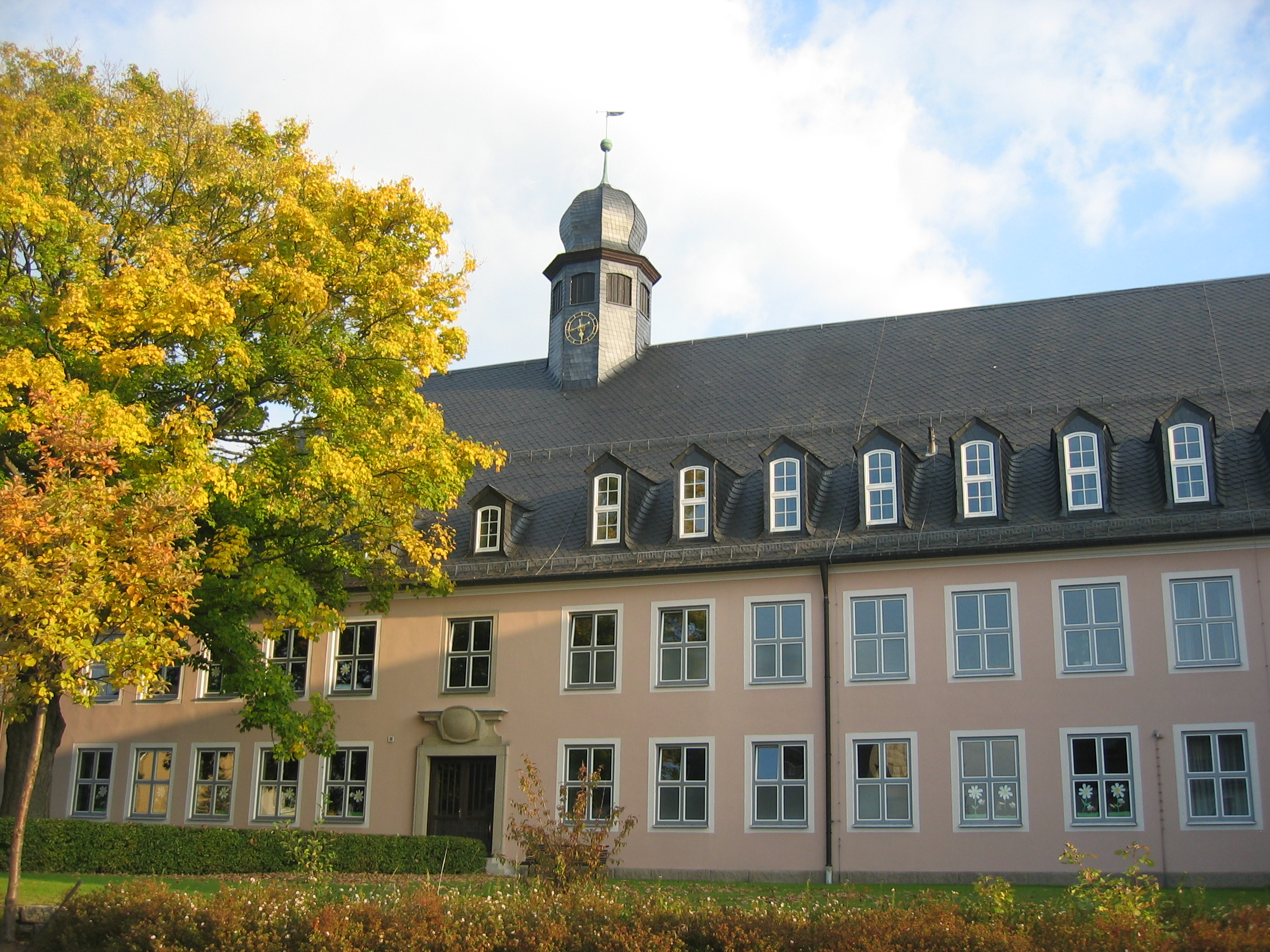 primary school of Münchberg